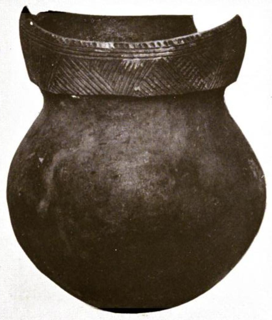 Illustration of "The G. Murray Reyolds pot" from the Wyoming Historical and Geological Society collection. "It is 9 1/2 inches high and has a body diamter of 7 1/2 inches. Its capacity is 4 3/8 quarts. It was found under a ledge of rocks, about the year 1890, on Kitchen Creek, Fairmount Township, Luzerne County, Pennsylvania, and presented to the society by Col. Reynolds." The pot rim is decorated with a pattern of parallel lines typical of Native American pottery from the Susquehanna River region.